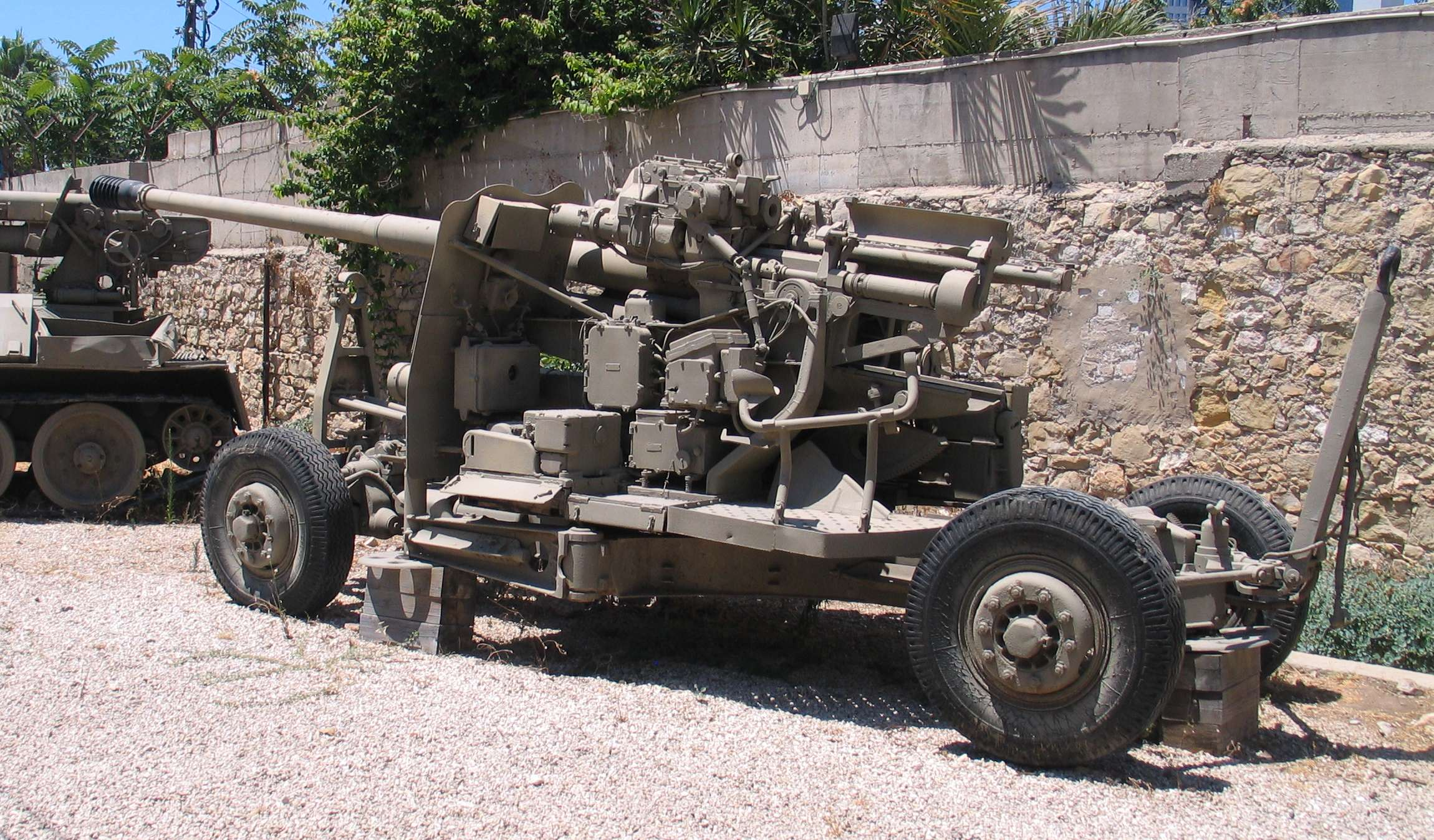 Batey ha-Osef museum, Tel Aviv, Israel. 100-mm air defense gun M1947 (KS-19).